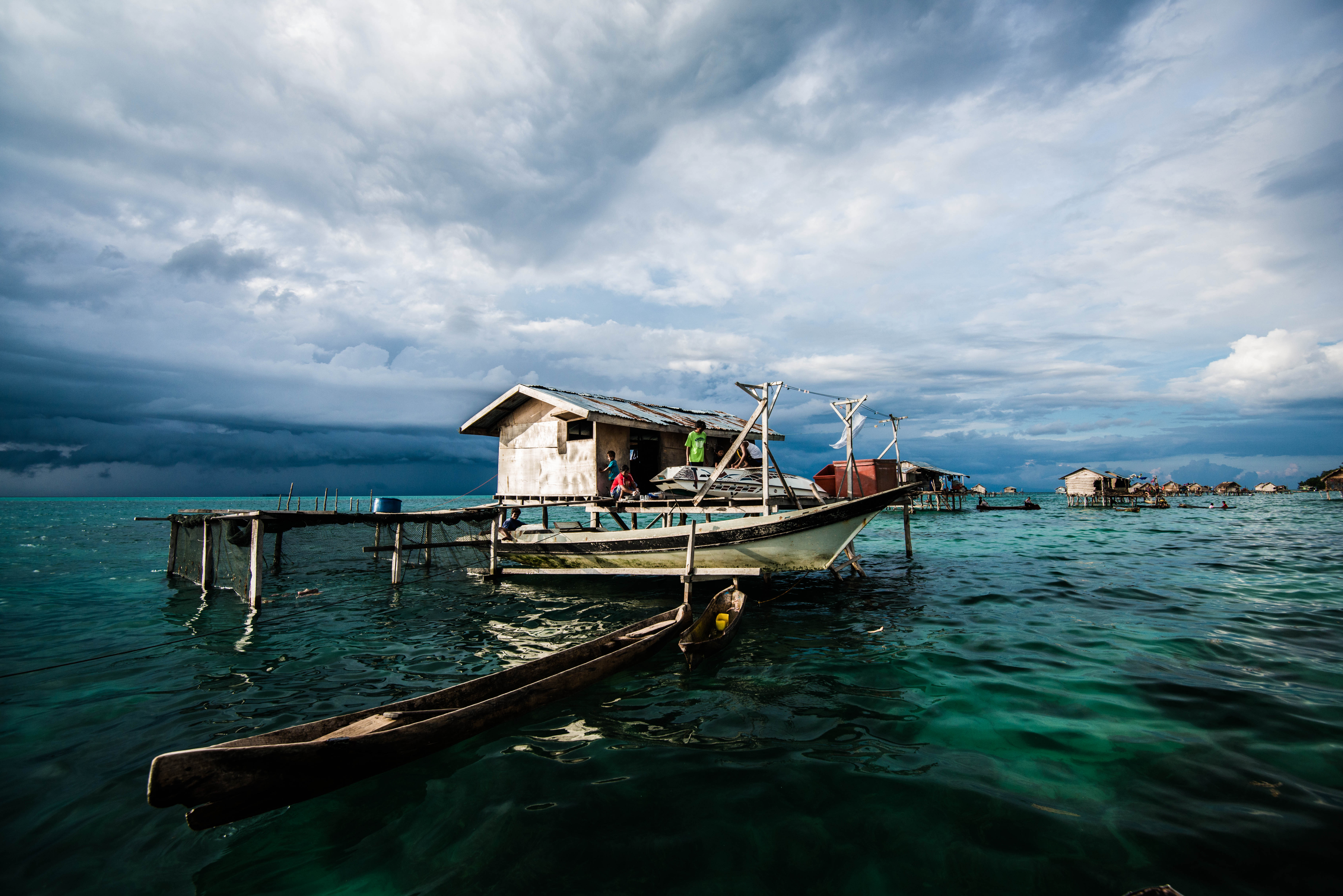 The Bajau are traditionally from the islands of the Sulu Archipelago, as well as parts of the coastal areas of Mindanao and northern Borneo. Bajau have sometimes been referred to as the Sea Gypsies, although the term has been used to encompass a number of non-related ethnic groups with similar traditional lifestyles. The modern outward spread of the Bajau from older inhabited areas seems to have been associated with the development of sea trade in sea cucumber (trepang).